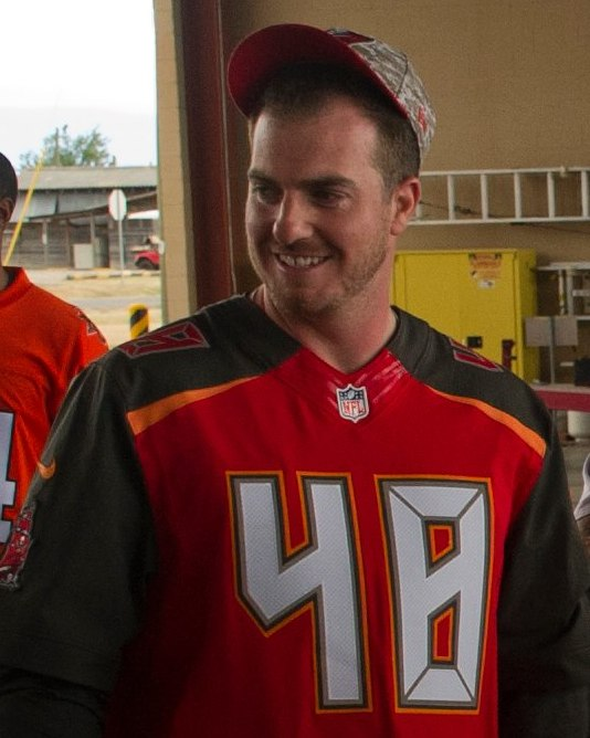 Firefighters with the 612th Air Base Squadron interact with NFL football players Feb. 7, 2016 at Soto Cano Air Base, Honduras as a part of a visit to the base hosted by the Armed Forces Entertainment for Super Bowl 50.